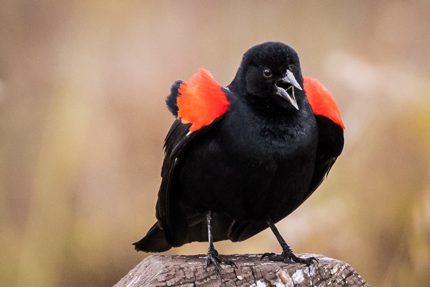 Point Isabel Regional Shoreline Richmond, California